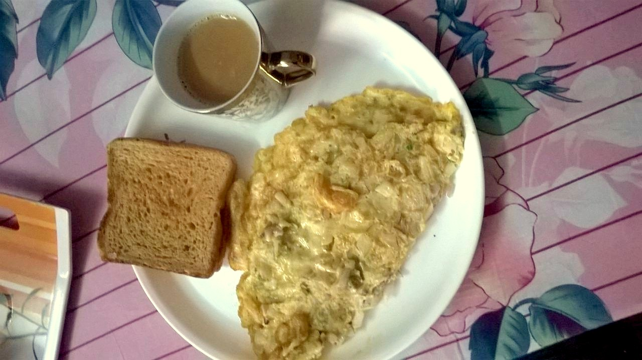 Home cooked Bread-Omelette & tea for breakfast